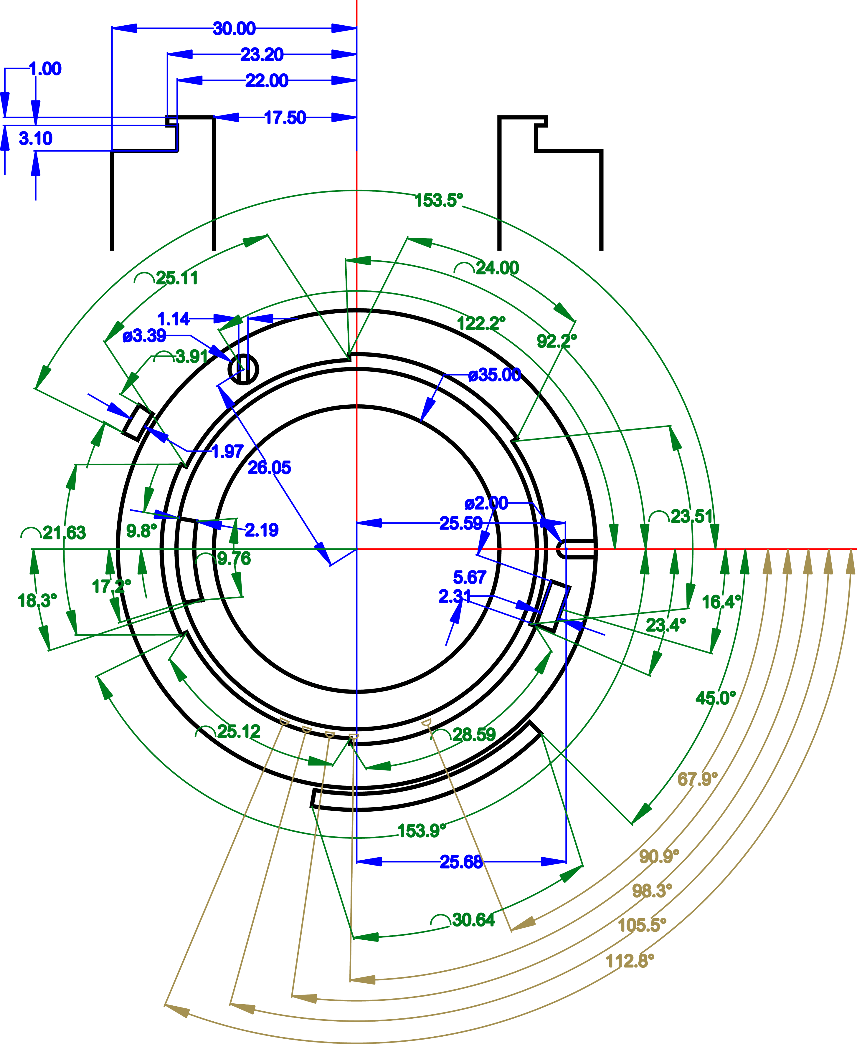 Nikon f-mount mechanical drawing with dimensions